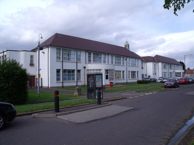 Westquarter Primary School This is a large school for a rather small village.